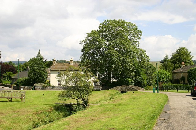 Cotherstone Village Photo taken July 2007